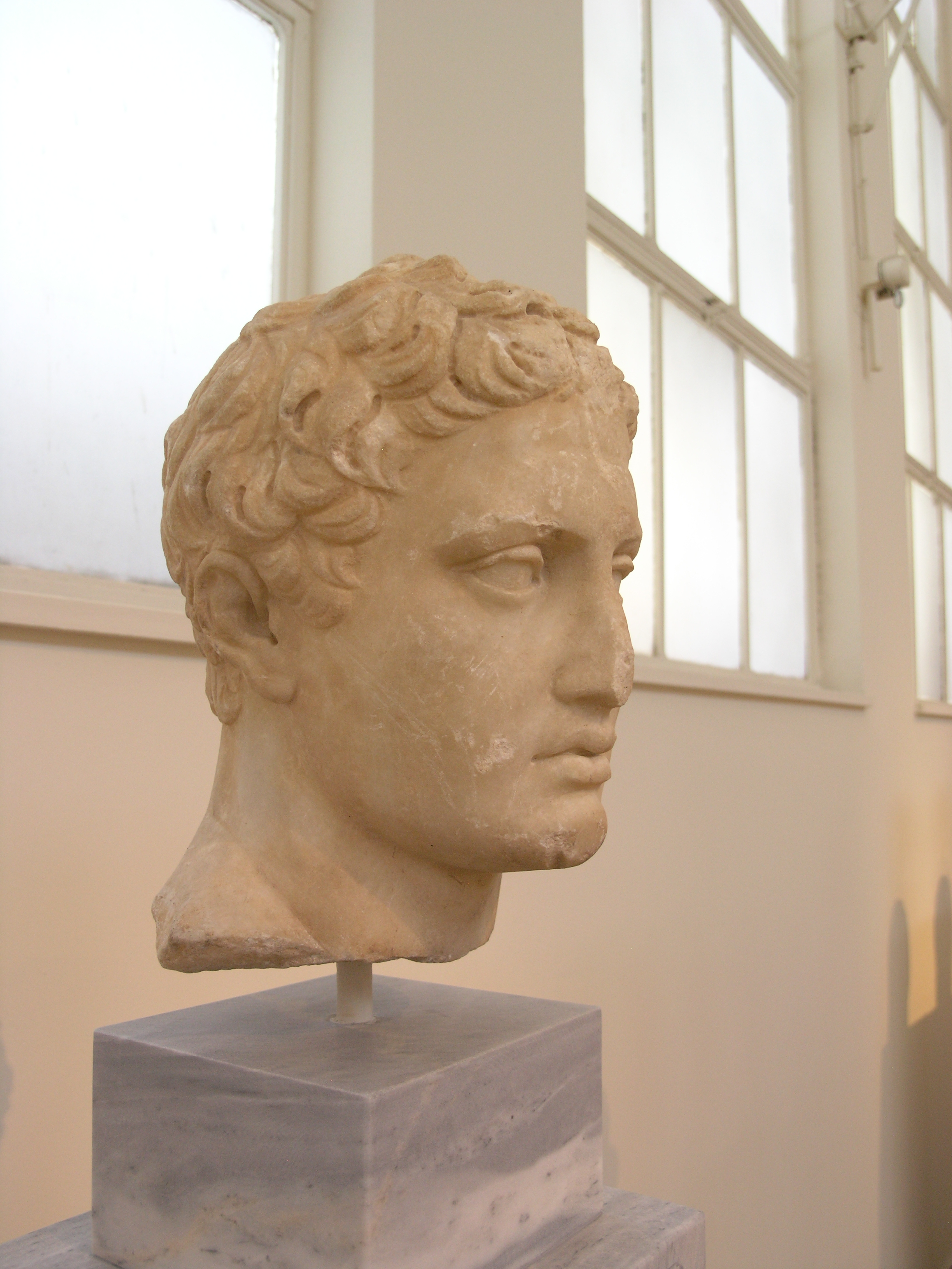 Young man's head from the stoa of Eumenes on the Acropolis south slopes. From a Roman copy of a statue of Ares attributed to Euphranor. Ca. 330-310 BC.